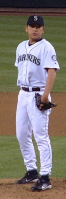 Kazuhiro Sasaki, own work taken at Seattle on May 22, 2002